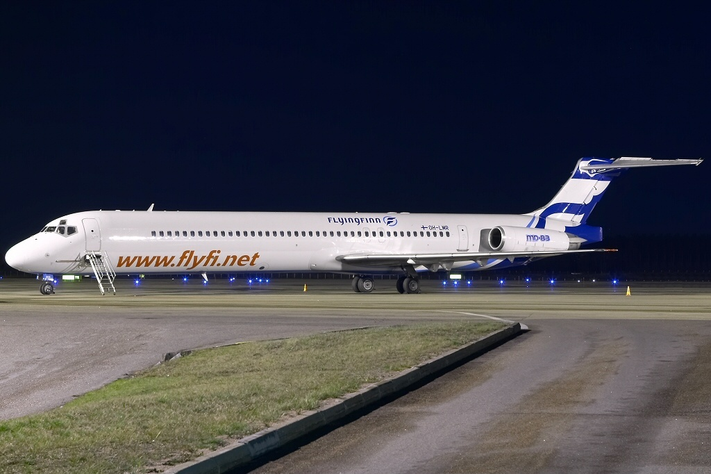 A DC-9-83 (MD-83) aircraft (OH-LMR) of Flying Finn at Helsinki-Vantaa Airport